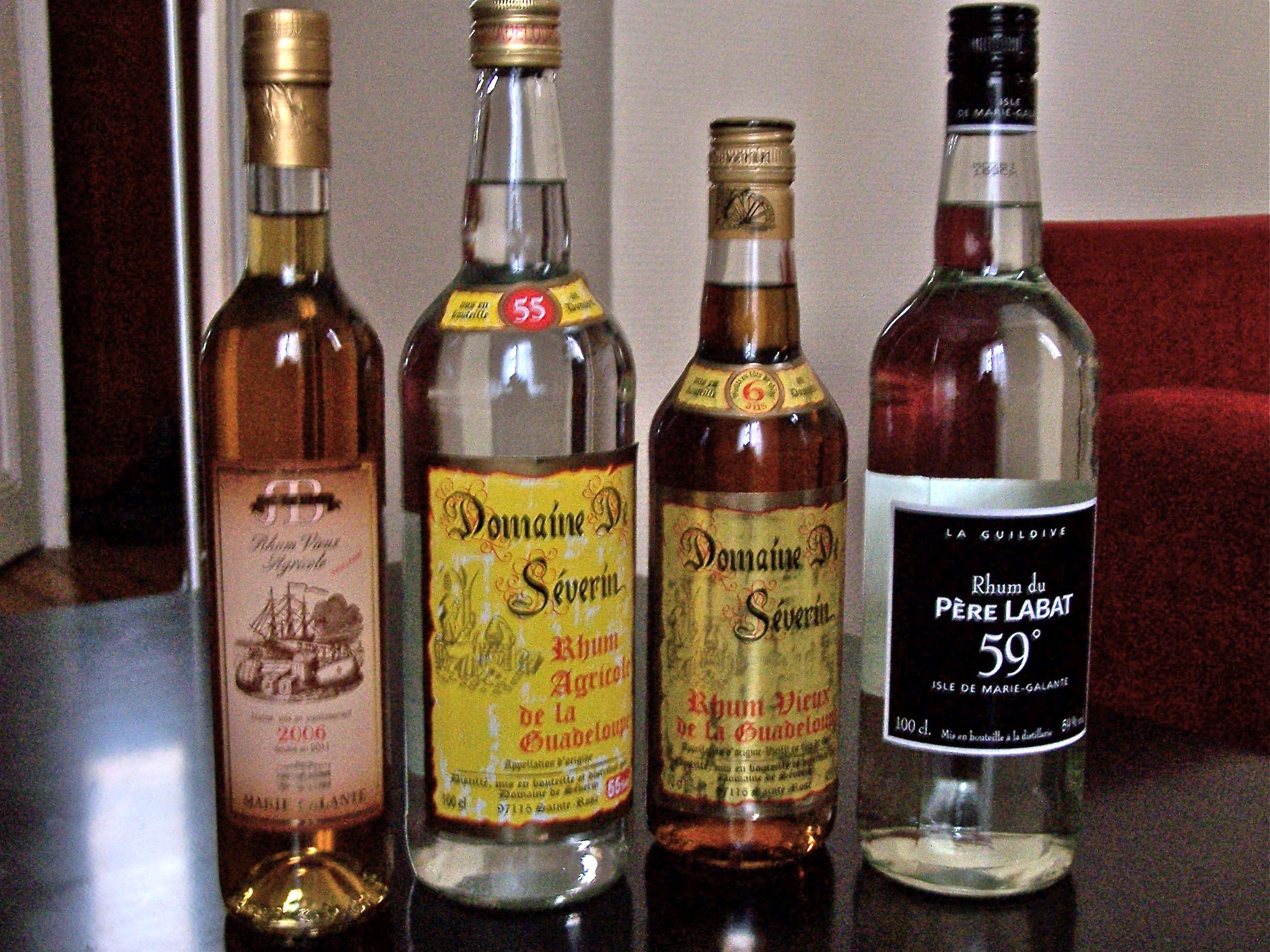 Samples of different rums from Guadaloupe